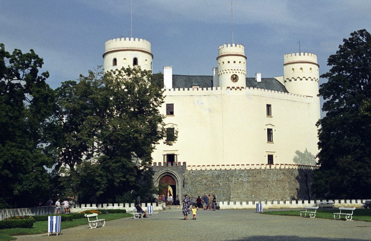 Orlik Castle